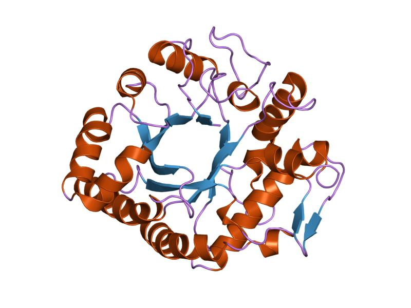 Cartoon representation of the molecular structure of protein registered with 2cyg code.